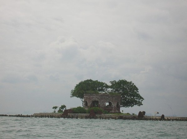 Pulau Kelor (Kelor Island) with its martello-like structure.